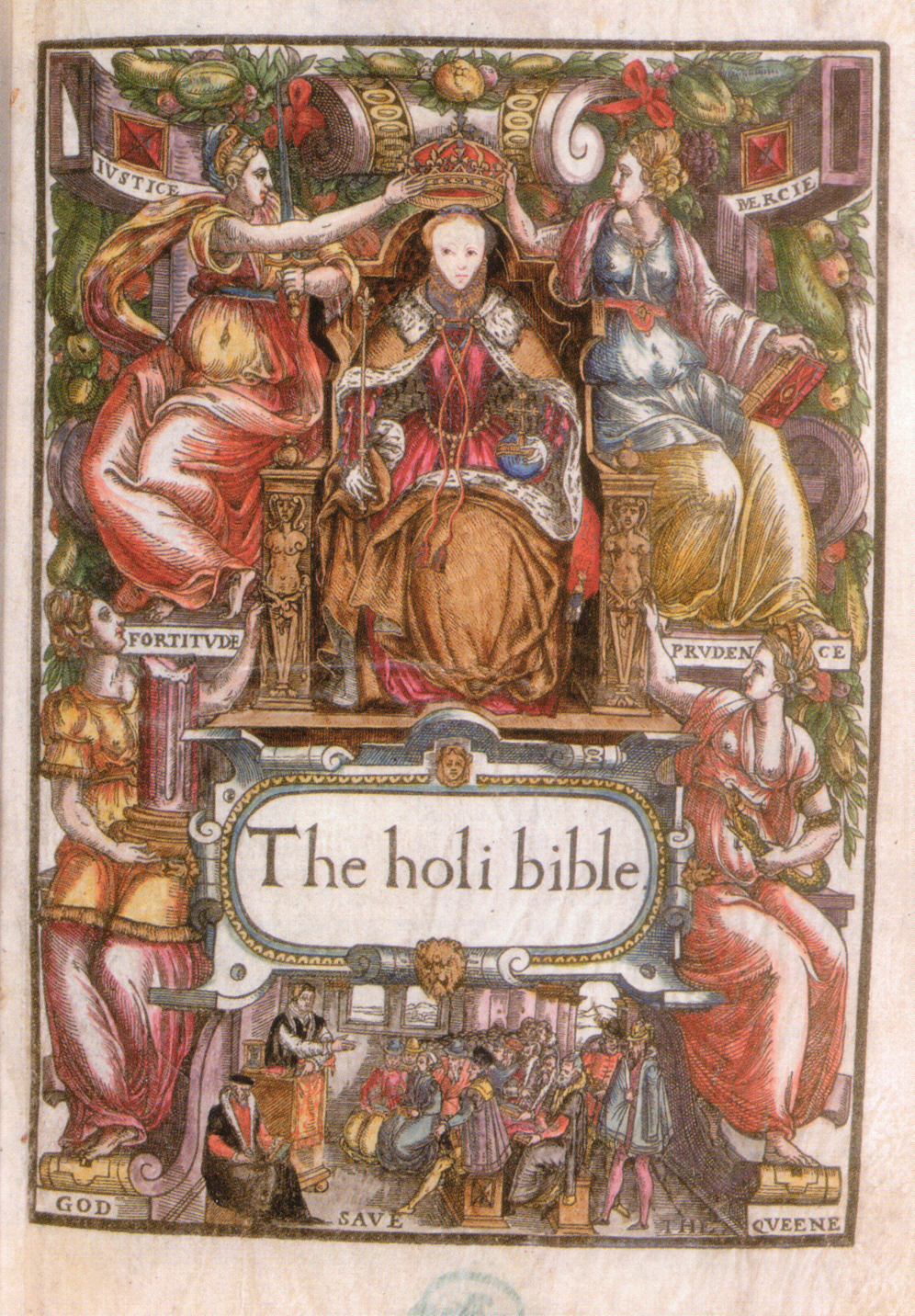 Coloured title page from the Bishops' Bible quarto edition of 1569, the British Museum. Queen Elizabeth sits in the centre on her throne. The words on the four columns read justice, mercy, fortitude and prudence, attributing these traits to the queen. Text at the bottom reads "god save the queene".